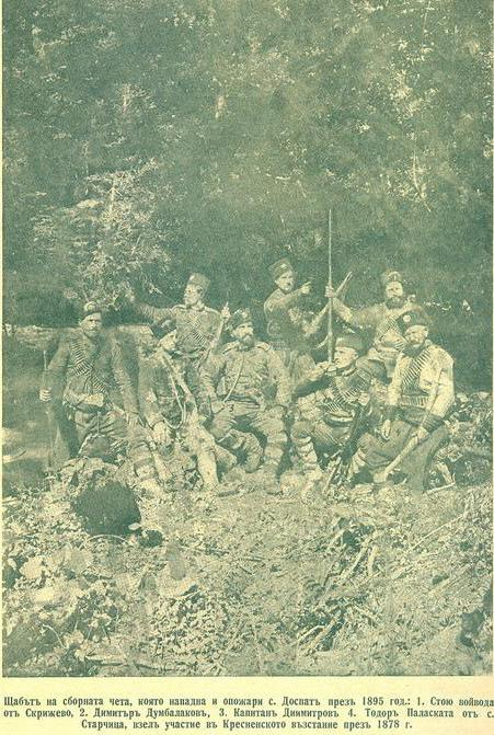 The voivodas that burned Dospat in the 1895: Stoyo Kostov, Dimitar Dumbalakov, kapitan Dimitrov and Todor Palaskata from Starchica